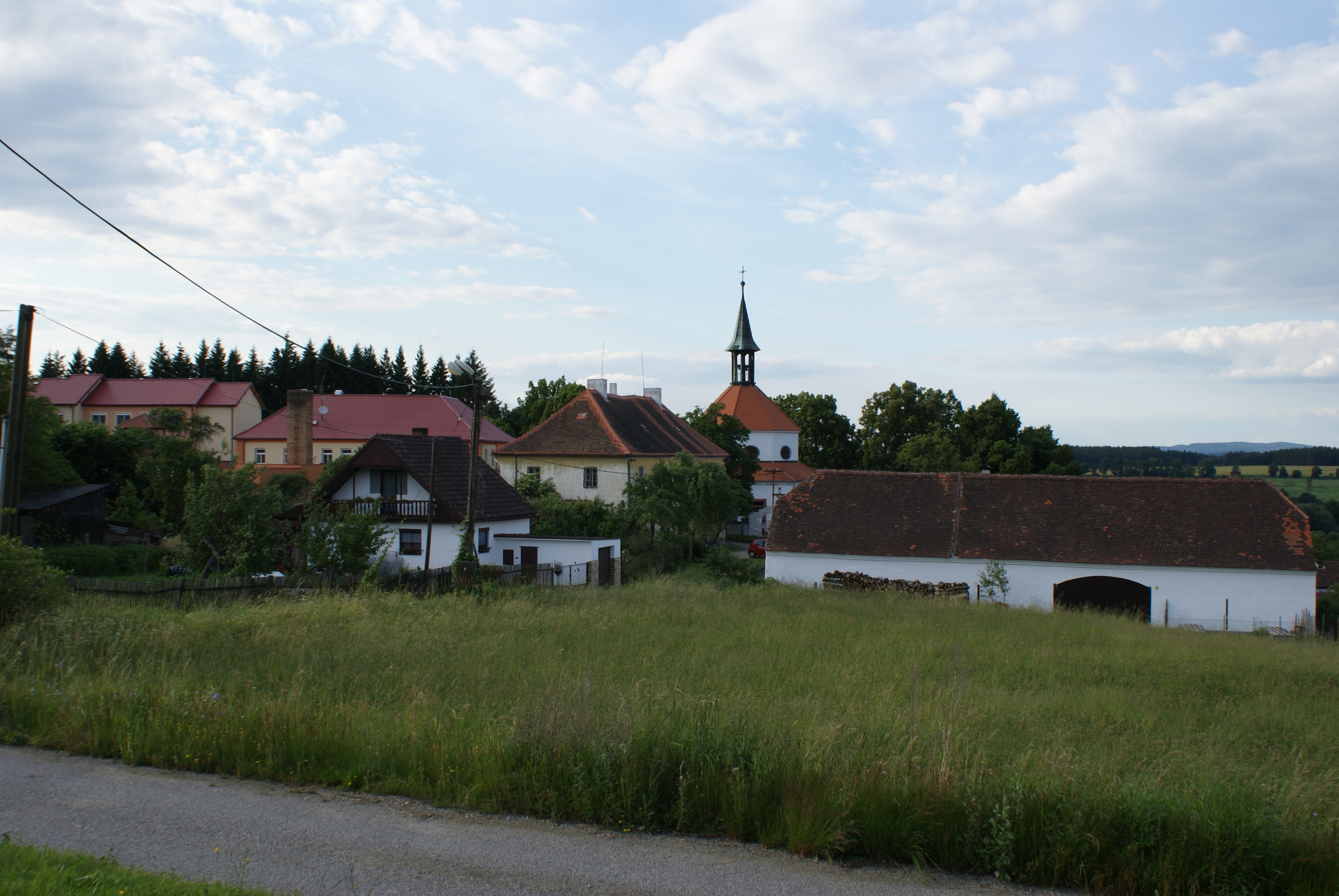 Skočice, village in Strakonice district, Czech Republic, view of the church part of the village. Česky: Skočice, okres Strakonice, pohled na část vesnice s kostelem